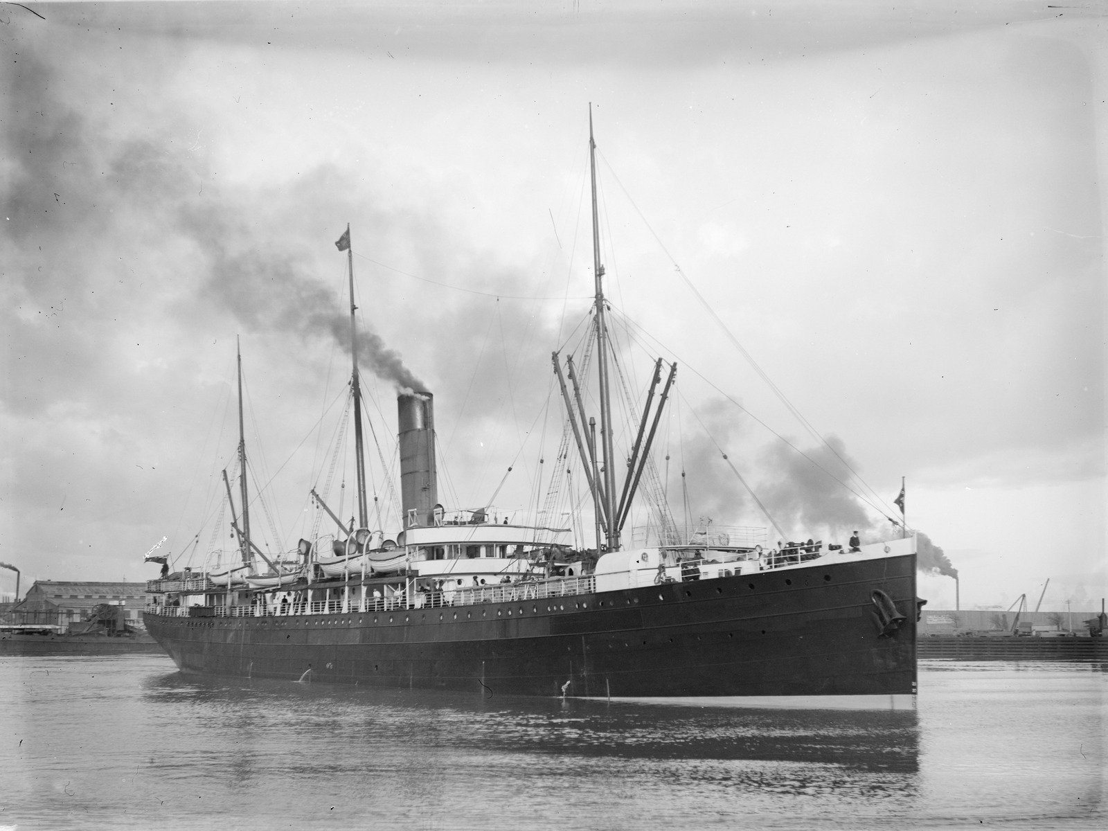 Photo of the New Zealand passenger ship SS Warrimoo taken by Allan C. Green (1878-1954). Picture probably taken prior to 1920.